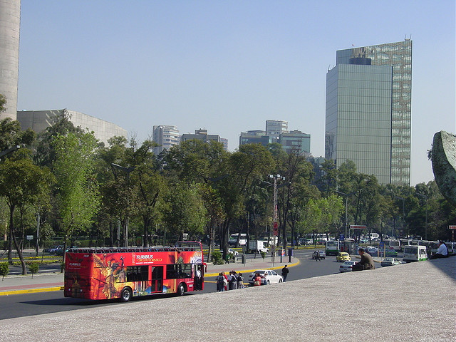 Turibus en Paseo de la Reforma